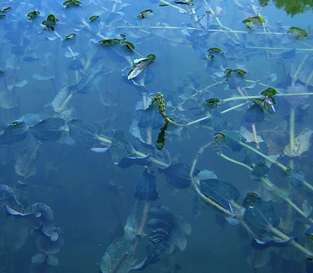 Potamogeton perfoliatus Author : Augustin Roche Source : [1]